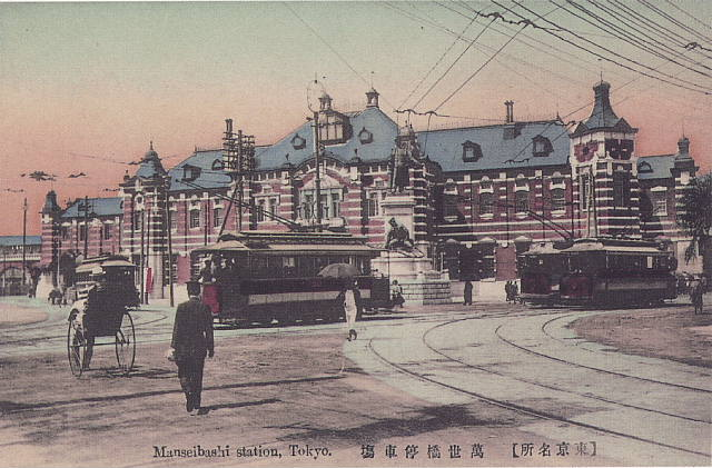 Original building of Manseibashi Station, Tokyo, before it was destroyed by the 1923 Great Kantō earthquake